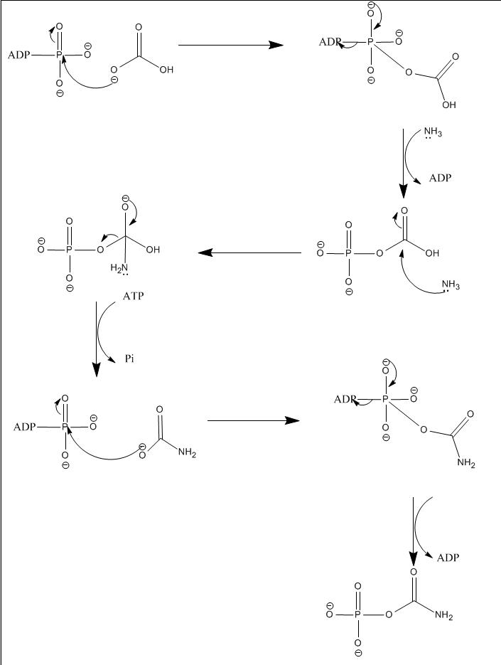 Formation of carbamoyl phosphate mechanism.